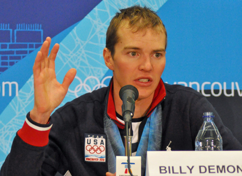 American skier Bill Demong at a press conference after winning the gold medal in the nordic combined at the 2010 Winter Olympics.